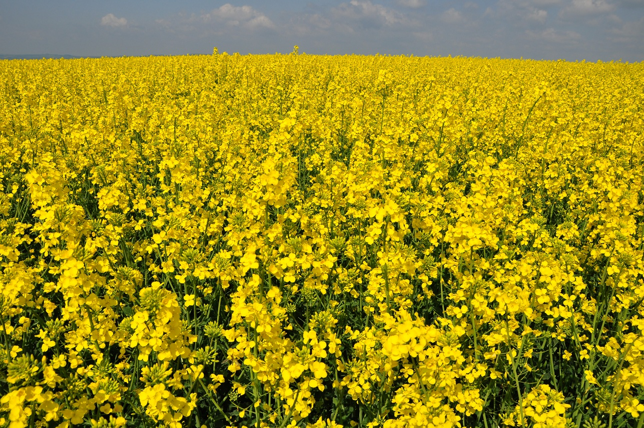 Rapeseed field in Germany